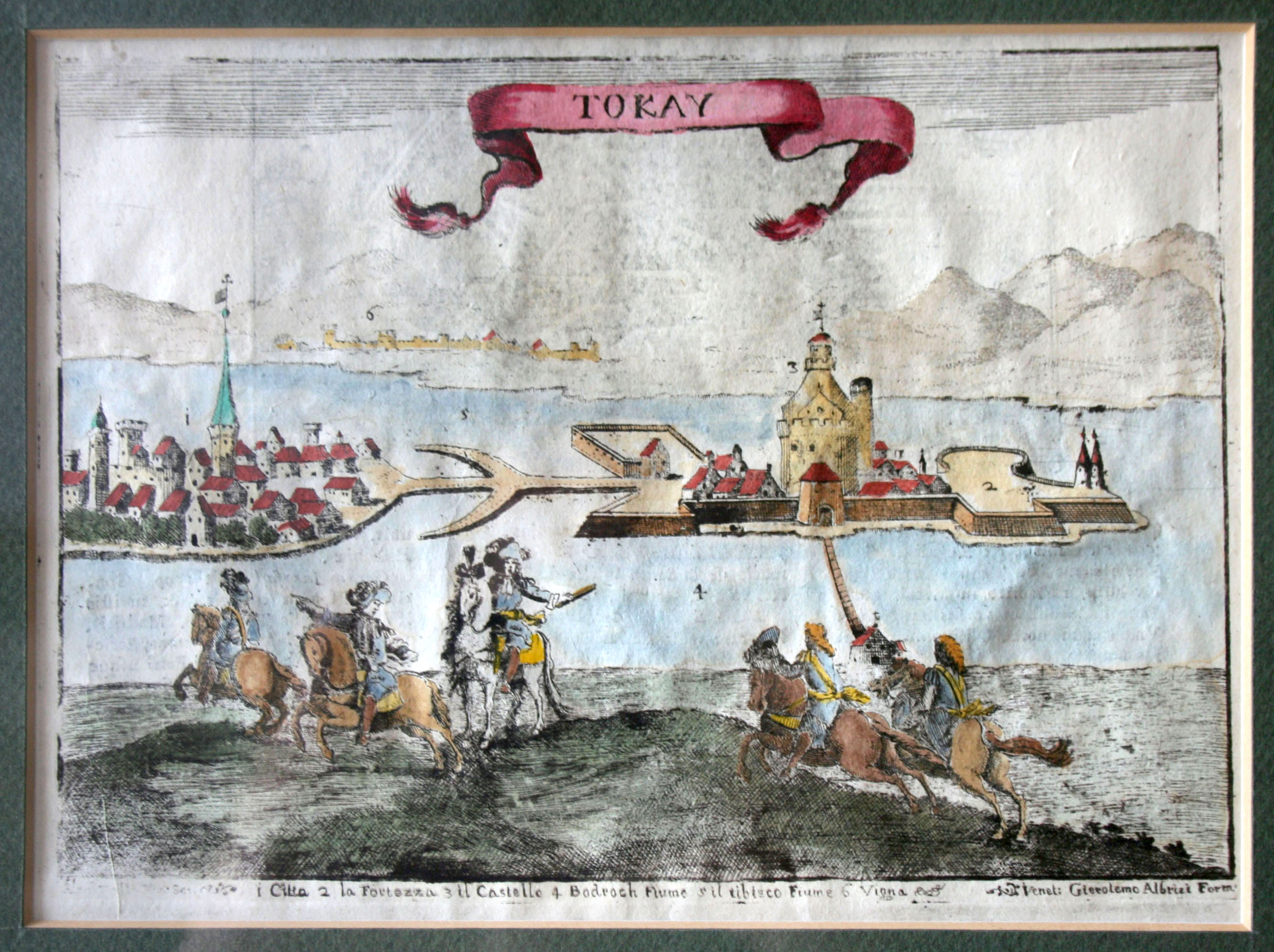 Tokaj Castle - colored etching - around 1664